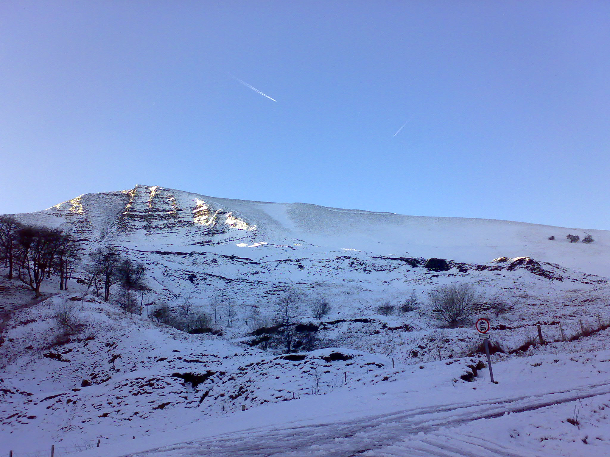 A View of Mam Tor, the Peak District, Derbyshire, England. Taken by Mark Mansell 22/01/2006.